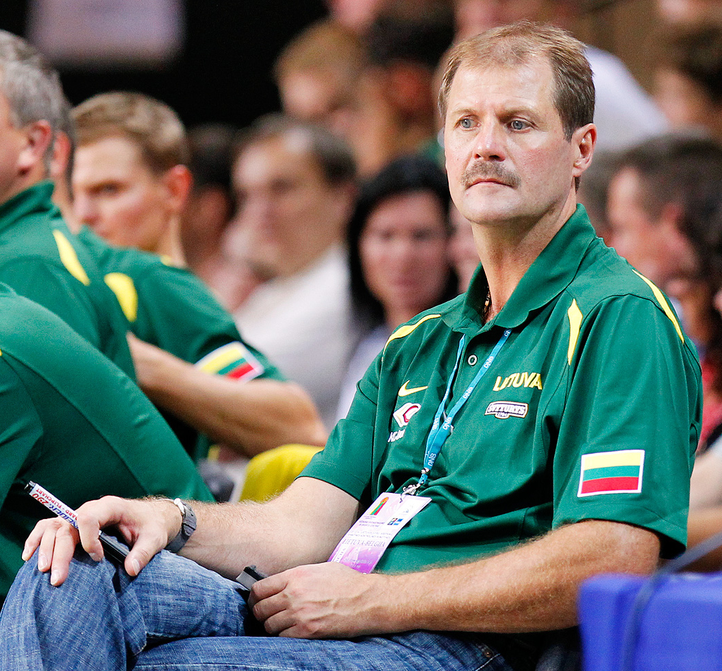 Lithuanian basketball coach Gintaras Krapikas